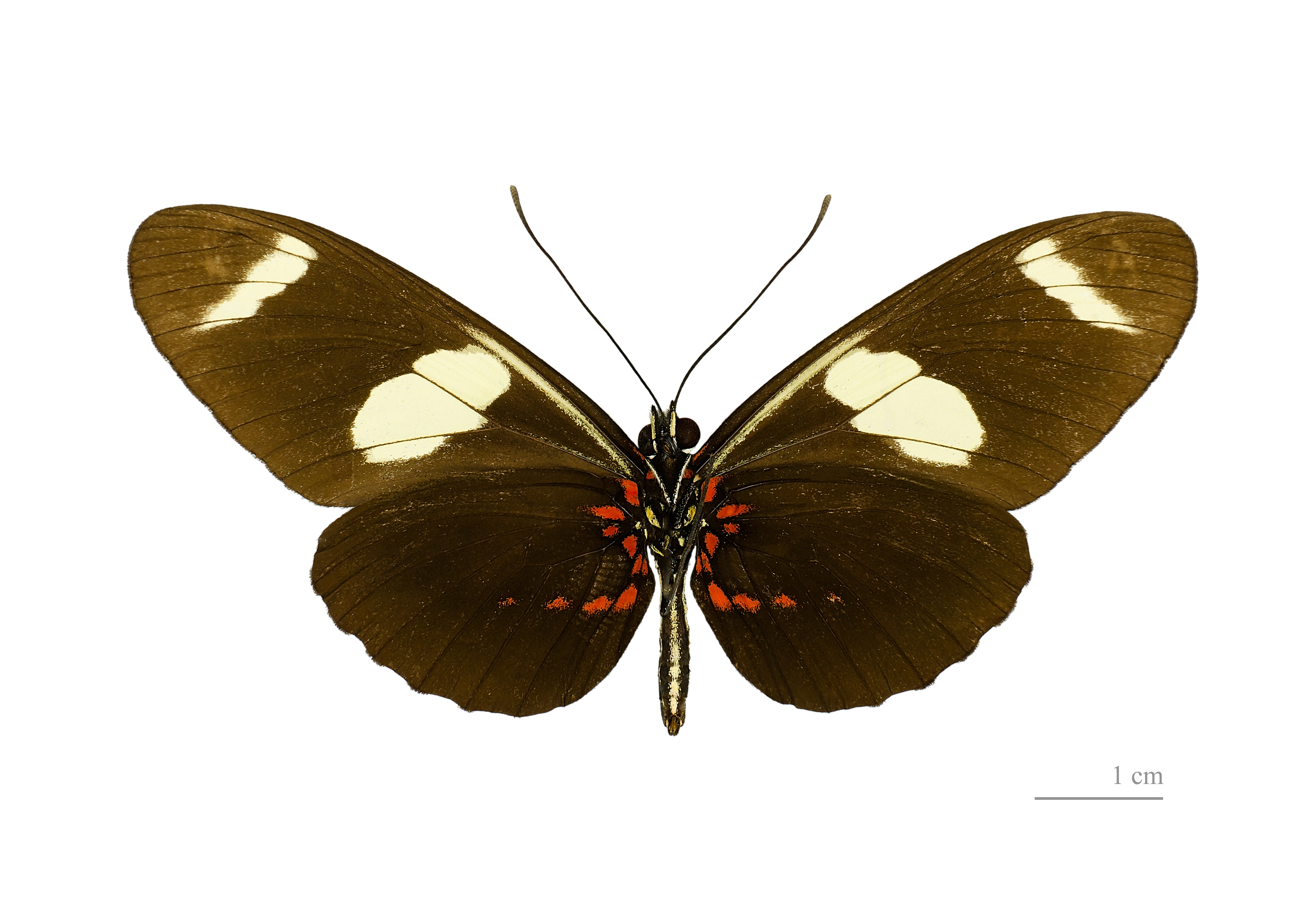 Sara Longwing - △ Ventral side